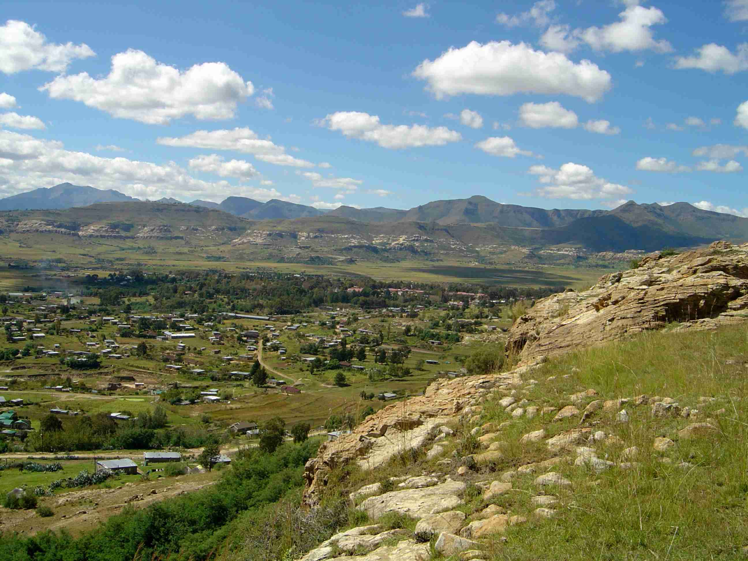 View of Roma Village; Lesotho